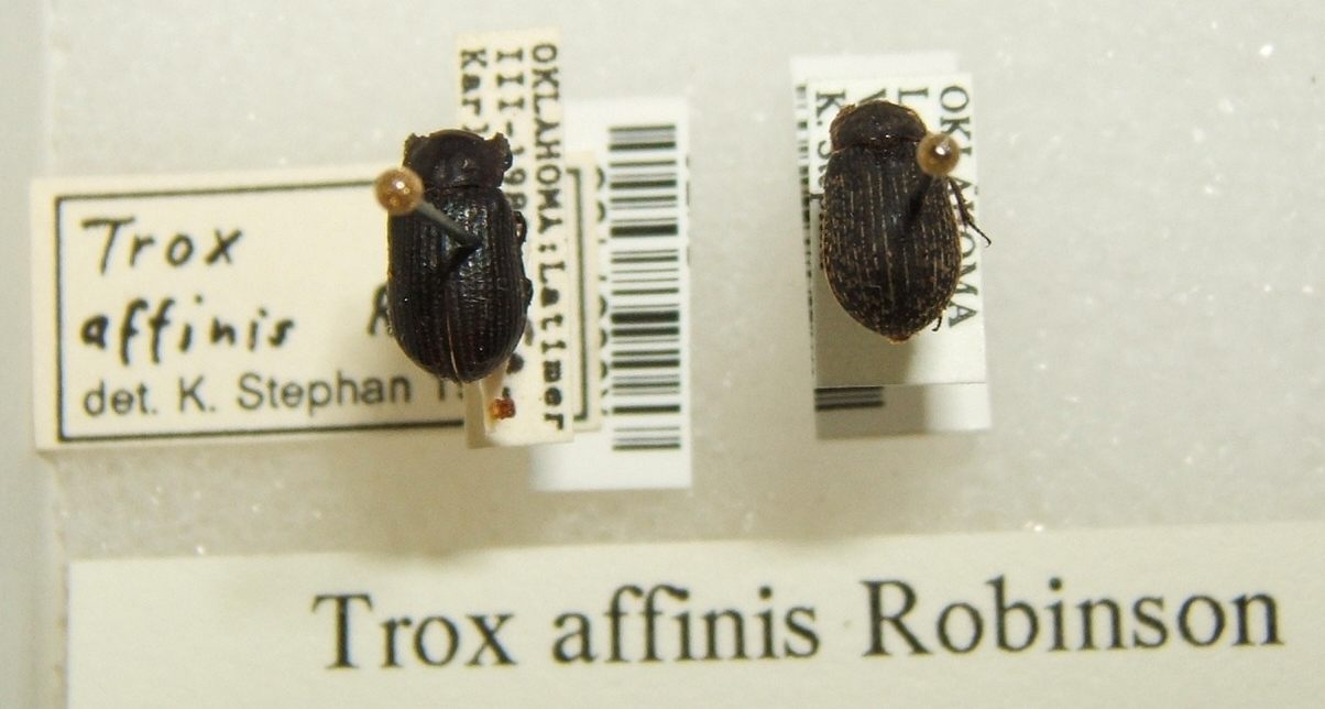 Trox affinis adult taken by Shawn Hanrahan at the Texas A&M University Insect Collection in College Station, Texas. Cropped version: Trox affinis sjh.cropped.jpg